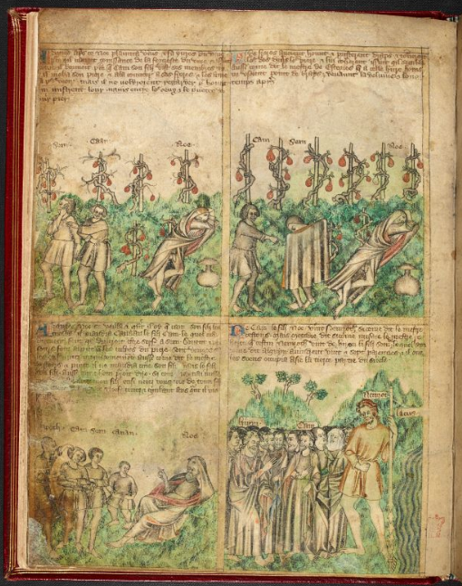 Noah's drunkeness, Ham mocks Noah, Noah is covered, Canaan is cursed.